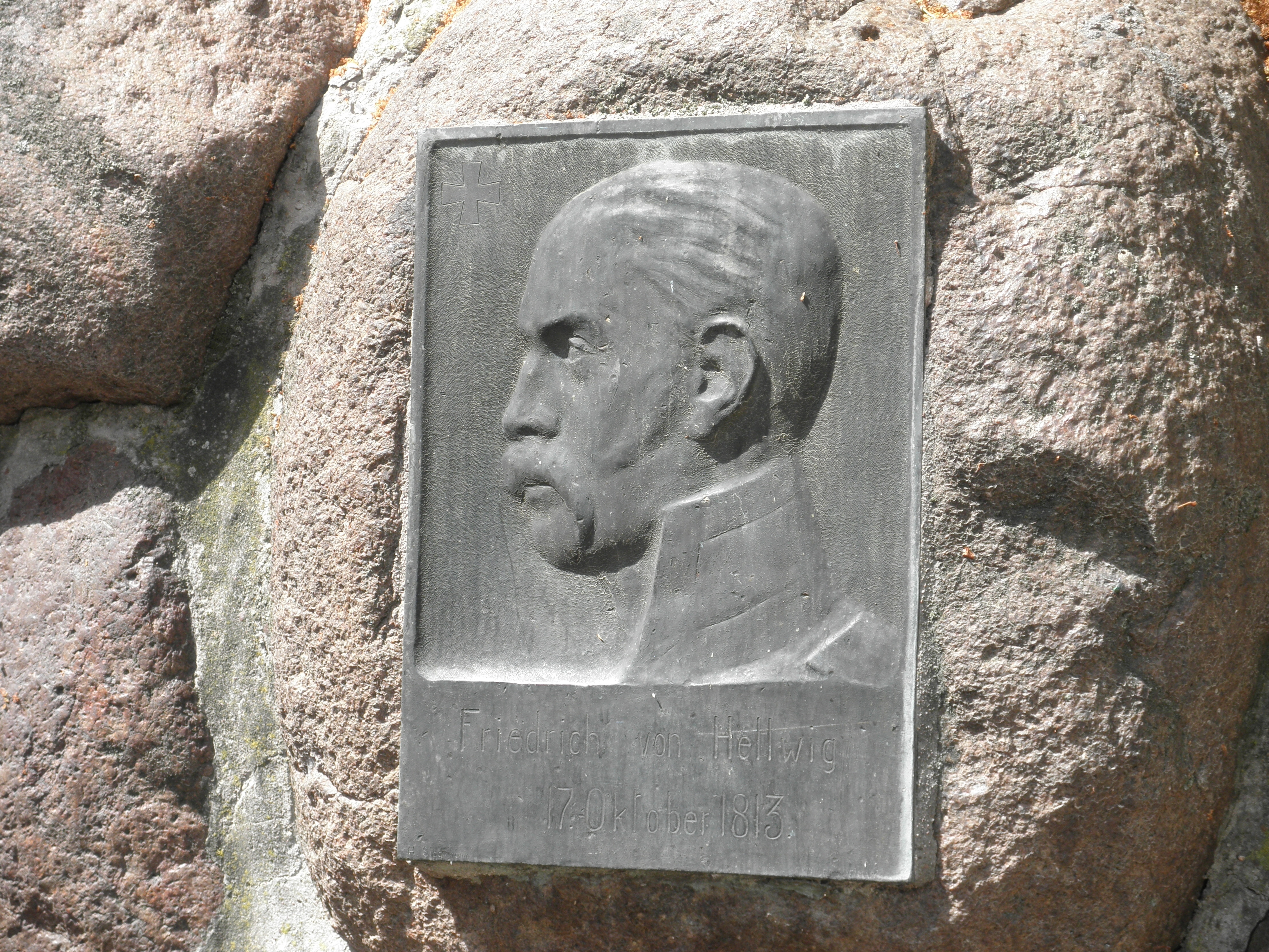 Monument of Friedrich von Hellwig in Schloßvippach